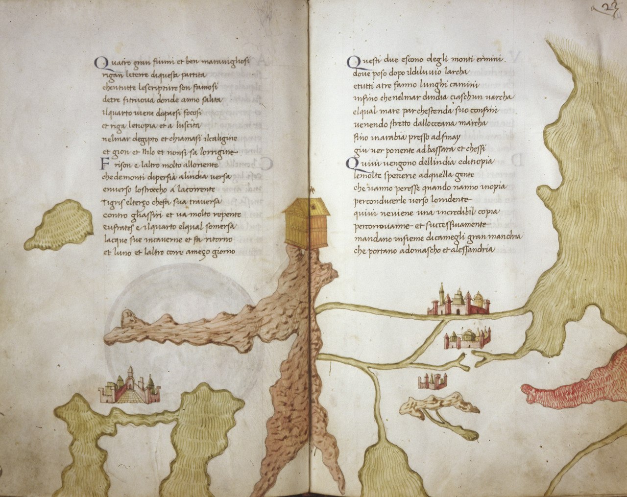 Manuscript pages from La Sfera, circa 1450, by Gregorio Dati (1362-1436), including hand-colored map. The work is sometimes attributed to Gregorio's brother Leonardo Dati. MS Typ 155, Houghton Library, Harvard University